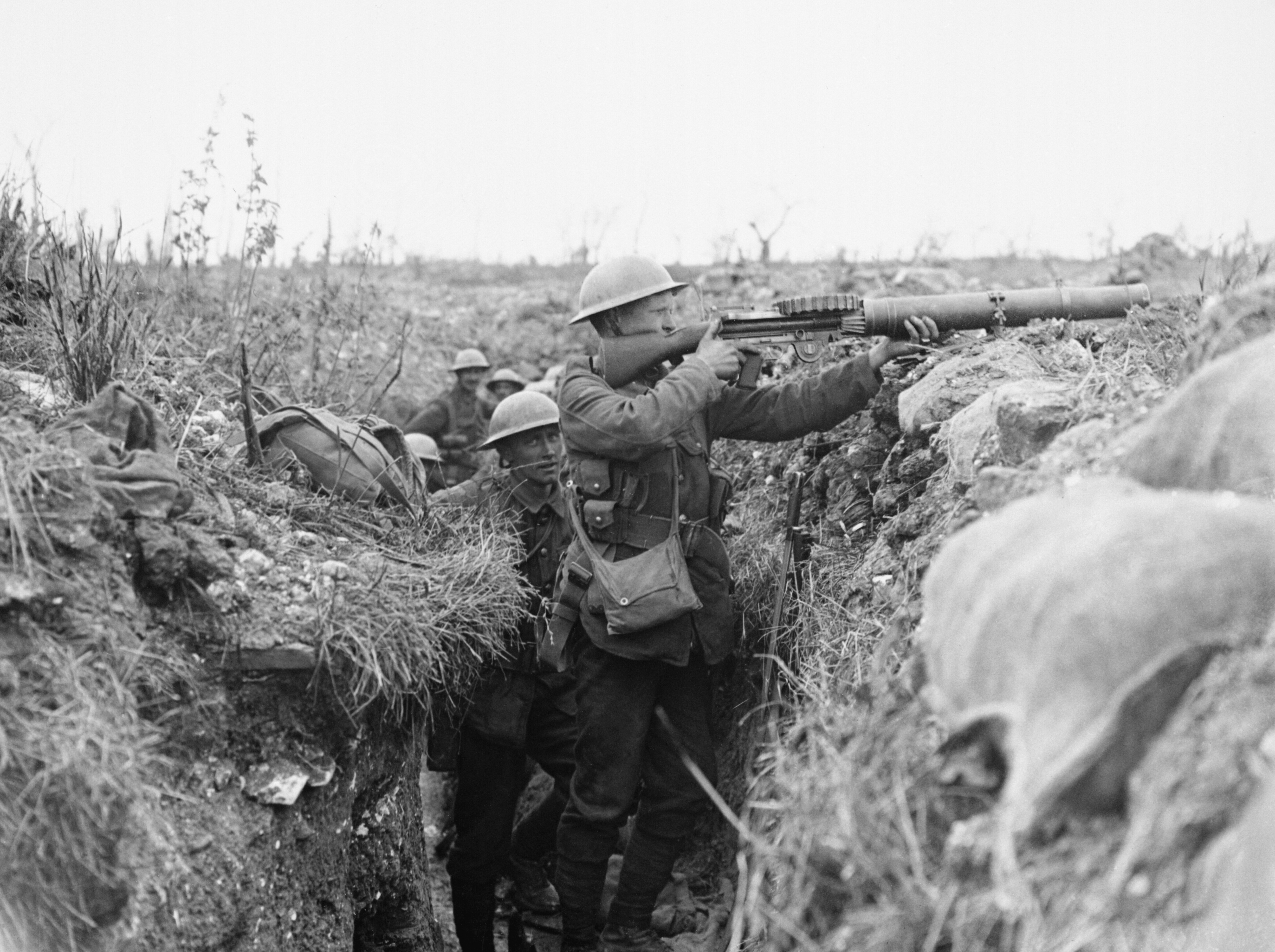 The Battle of the Somme, July-november 1916 A Lewis light machine gun in action in a front line trench near Ovillers. Possibly troops of the Worcestershire Regiment of the 48th Division.